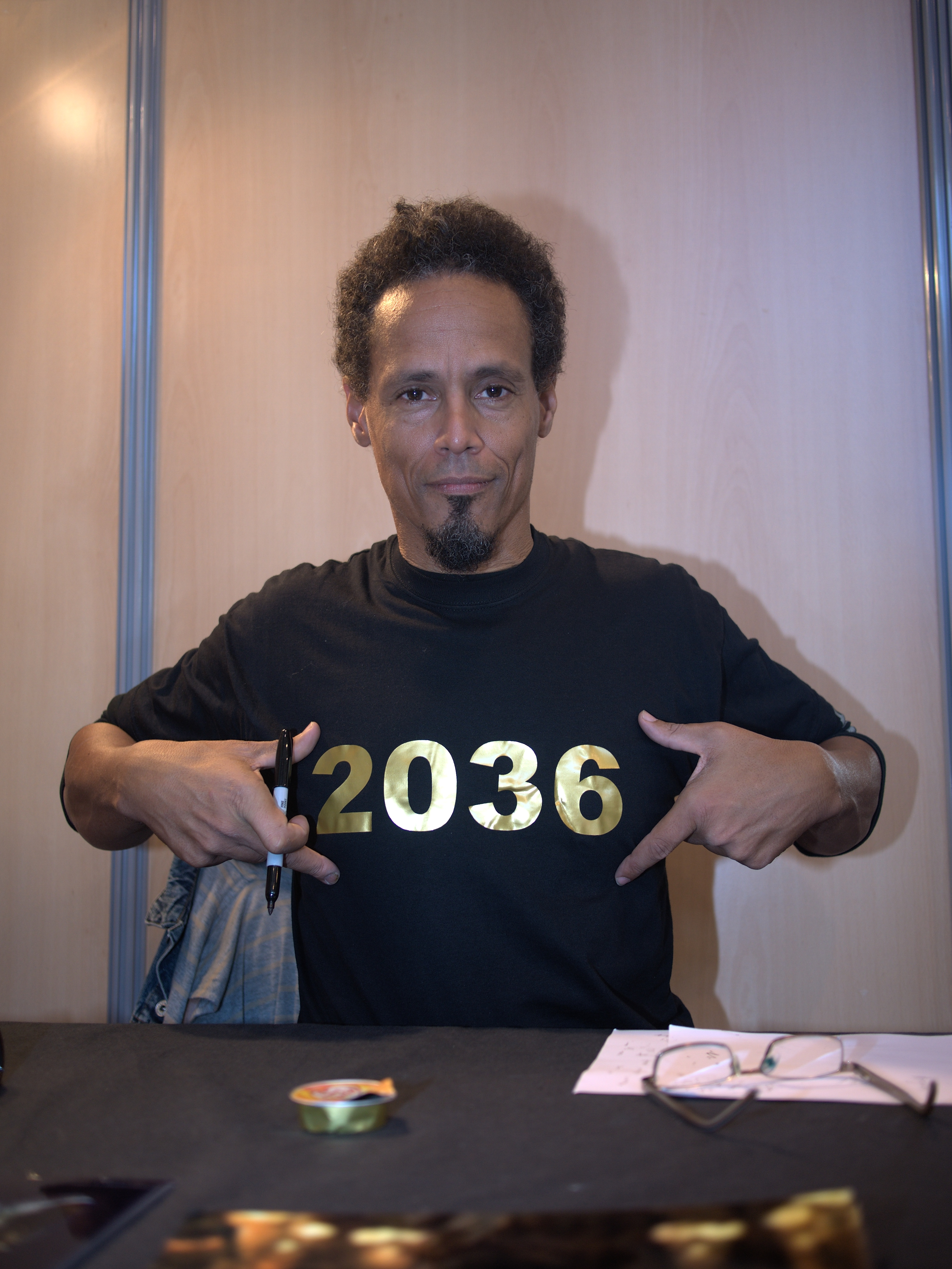 Toulouse Game Show Festival, 4th edition.